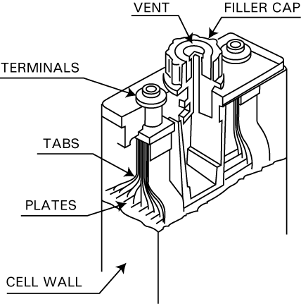 General drawing of the structure of aircraft battery's vented type NiCd cell